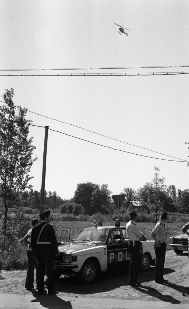 Manhunt underway for the escapees from Kumla Prison, 1973.